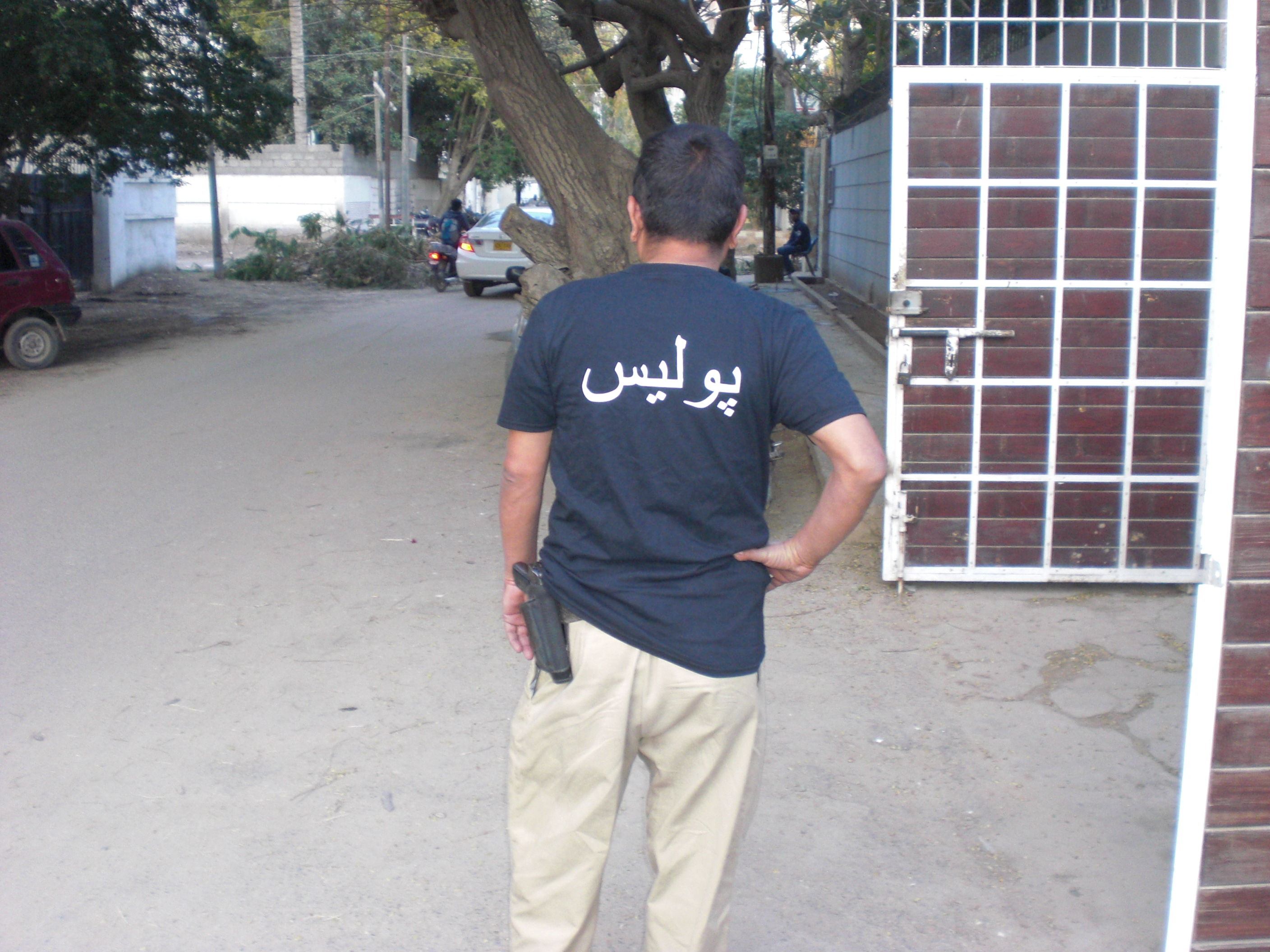 A Sindh police constable in uniform